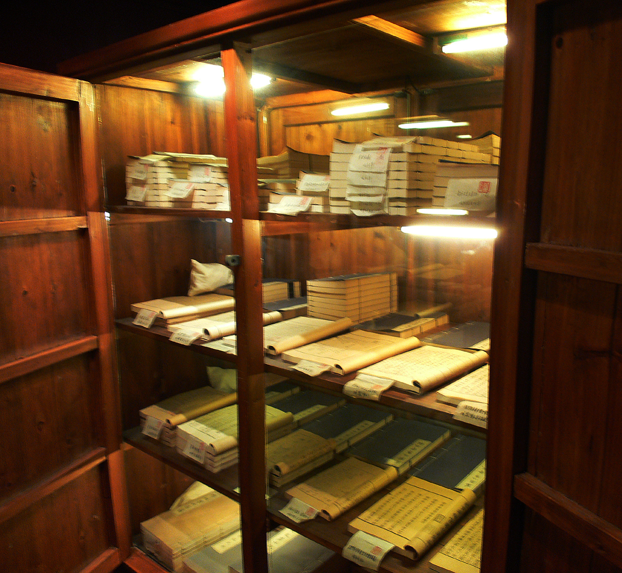 Tian Yi Chamber library book case